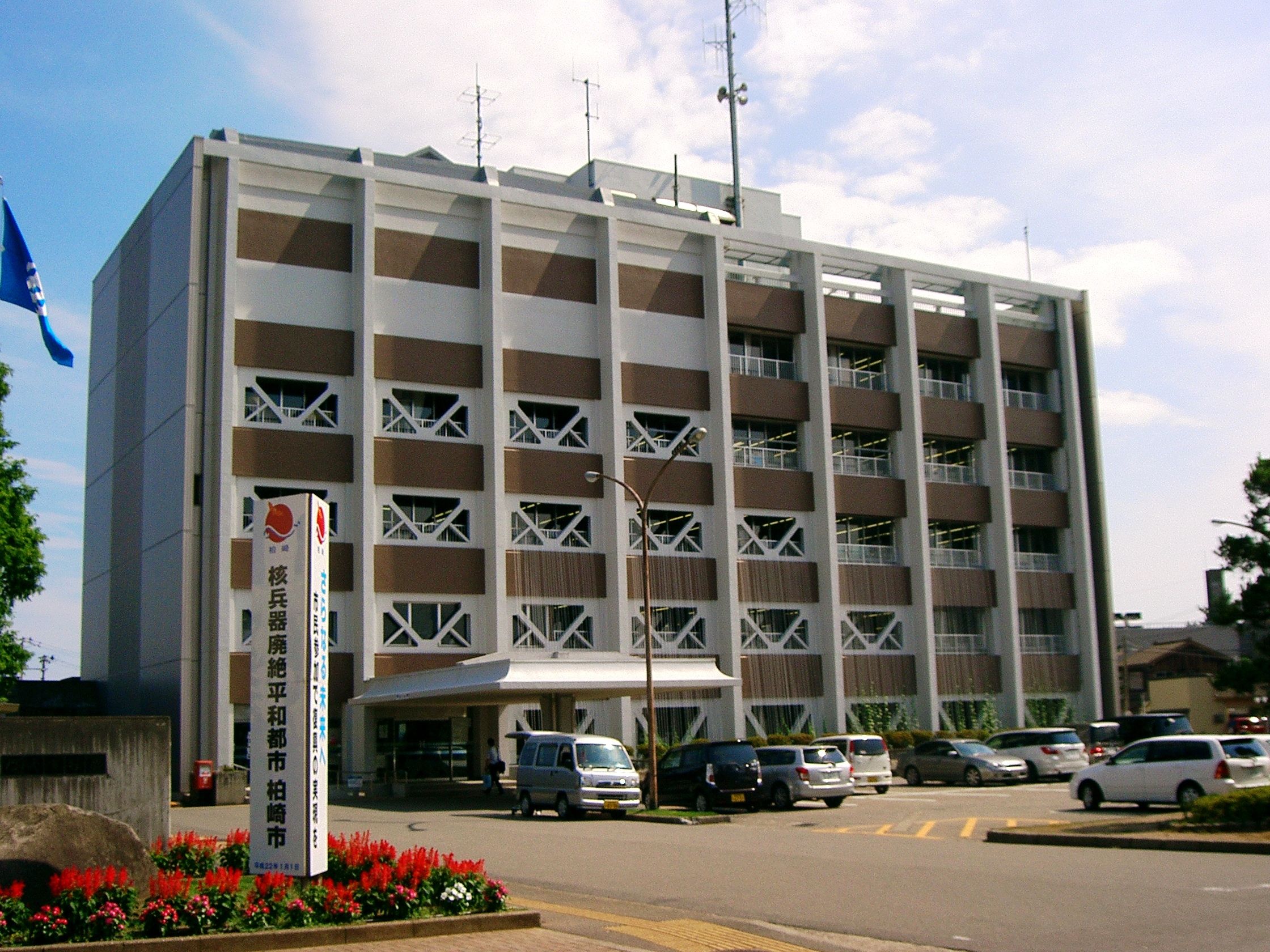 City Office of Kashiwazaki, Niigata